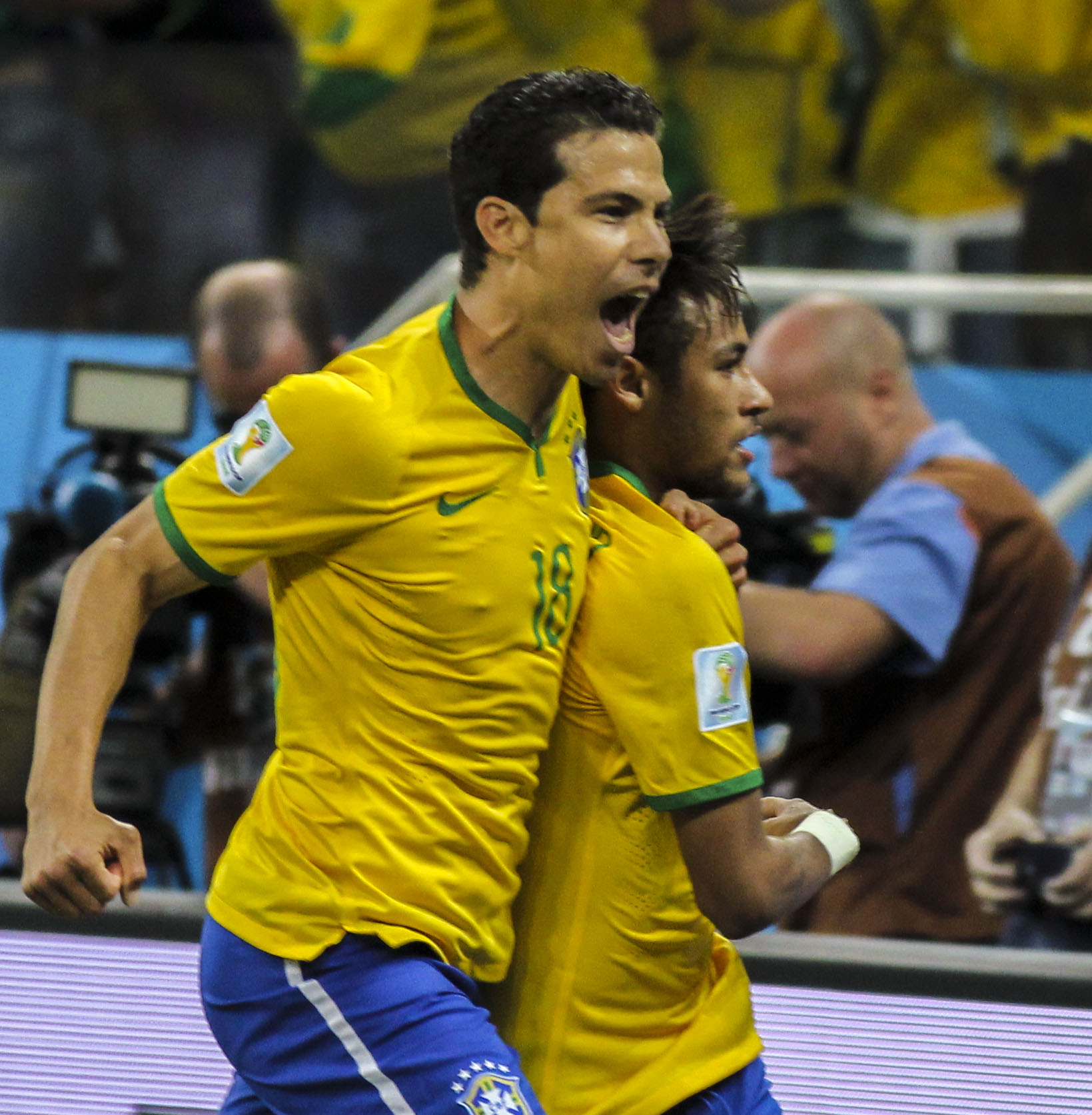 Brazil and Croatia match at the FIFA World Cup 2014-06-12